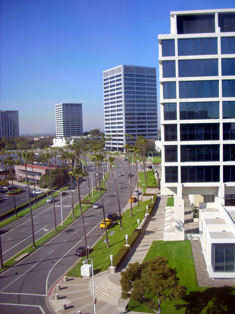 Newport Center in Newport Beach, California.